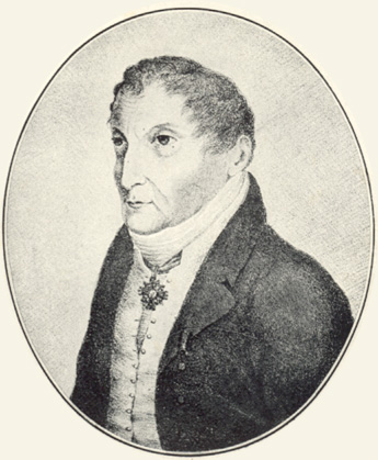 Baltic German cartographer Ludwig August Mellin (1754-1835).